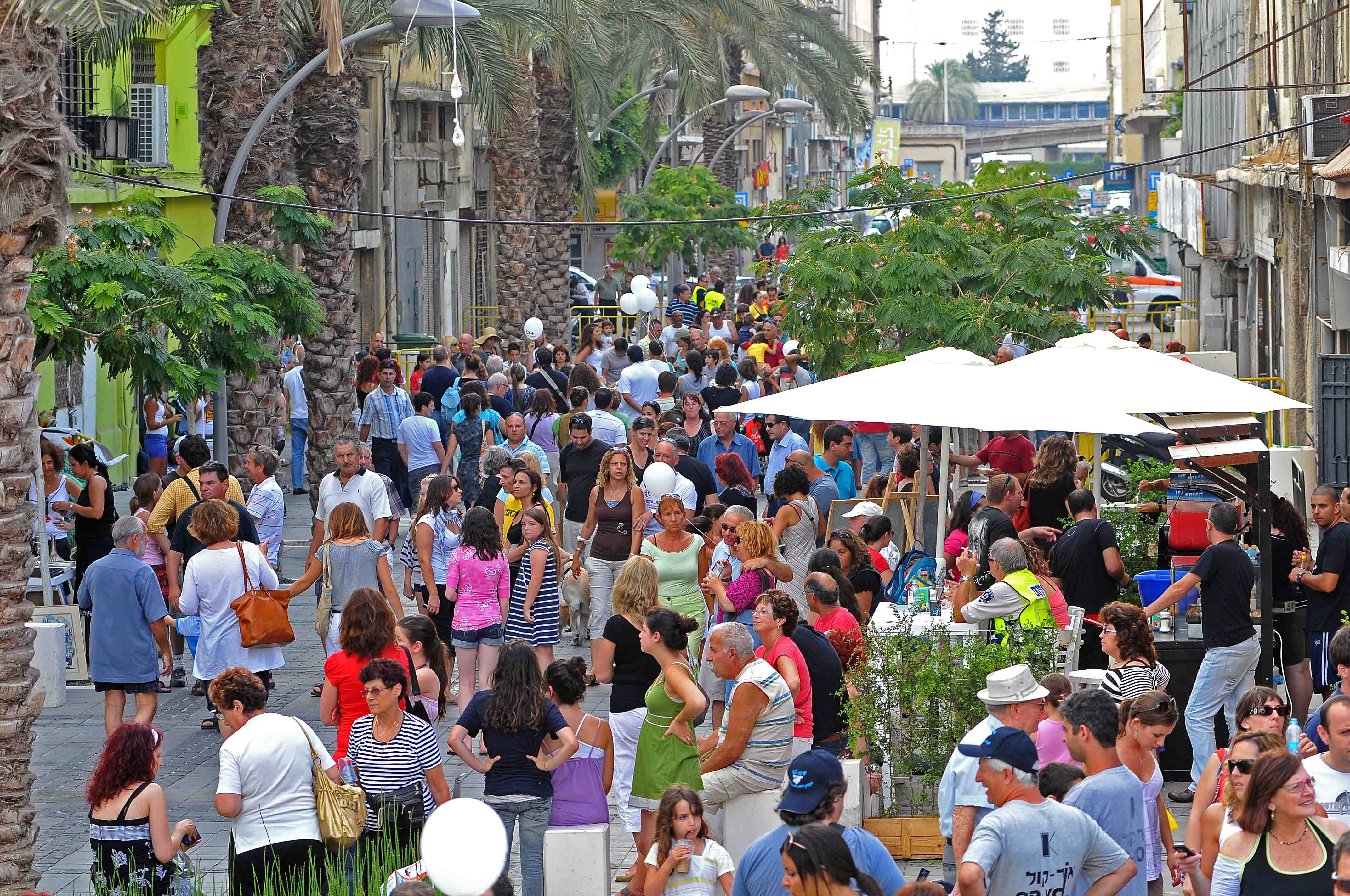 People on the streets of downtown Haifa during the "Kalabat Shabat" summer street parties of Haifa on Friday afternoons (2009)